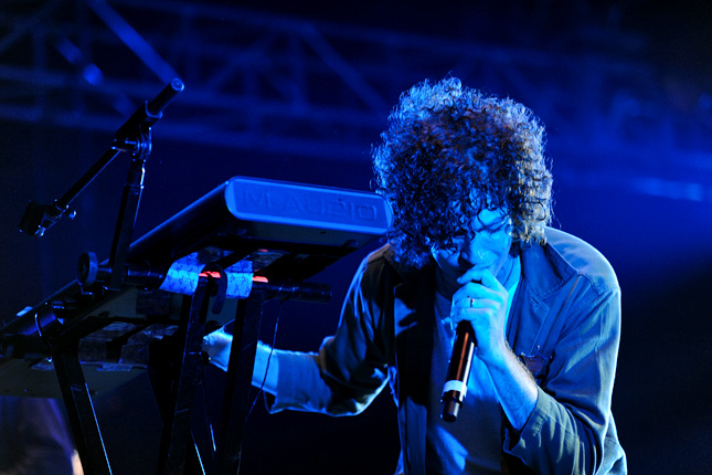 Southbound Festival 2011